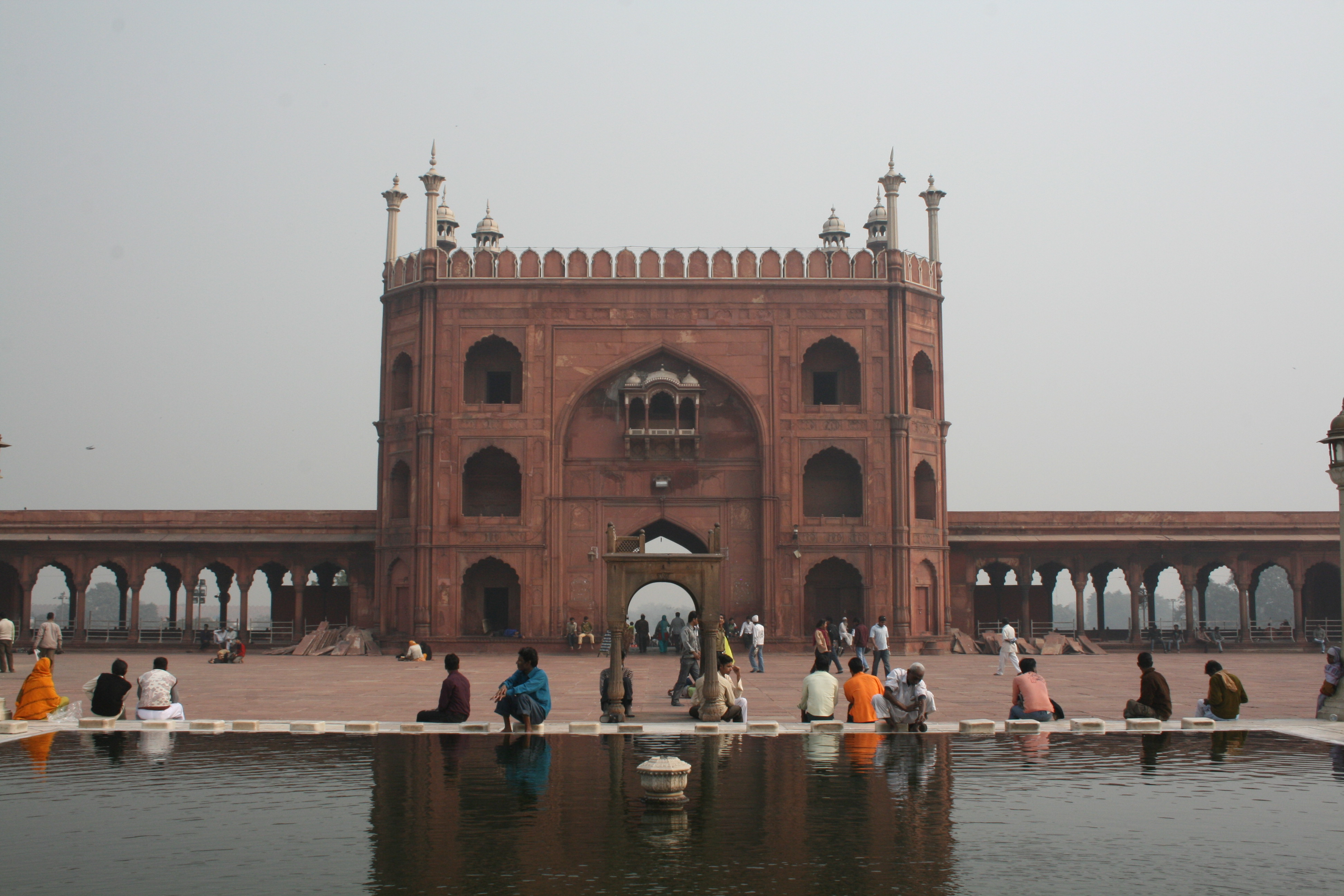 Jama Masjid, Delhi, India